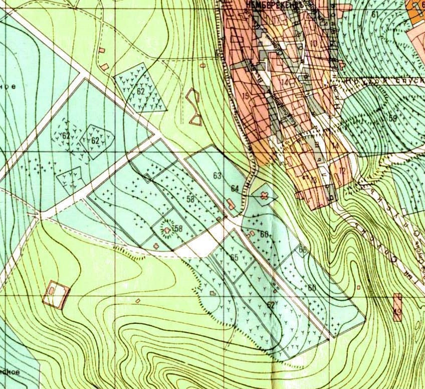 Upland cemetery. Map of Baku in 1898